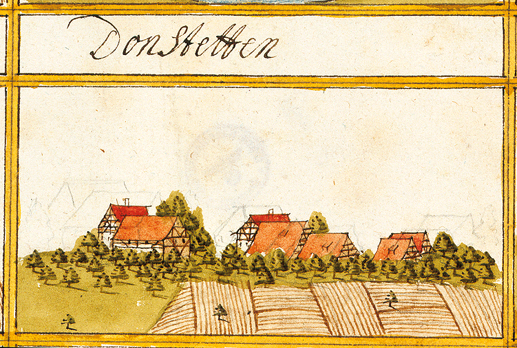 View of Donnstetten, Römerstein (?) [Question mark from original description of the State Archive of Baden-Württemberg], from the forest register books created by Andreas Kieser